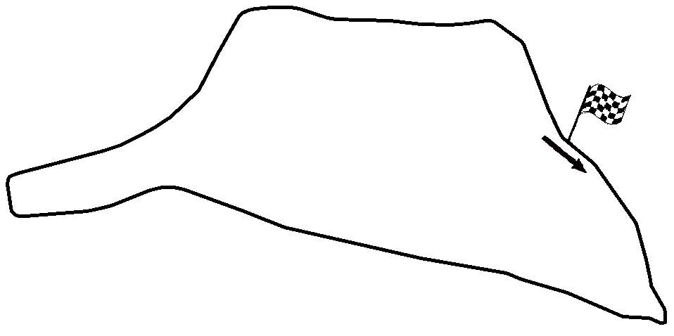 This file shows the layout of the Chimay Street Circuit used during the Grand Prix des Frontières between 1929 and 1972.